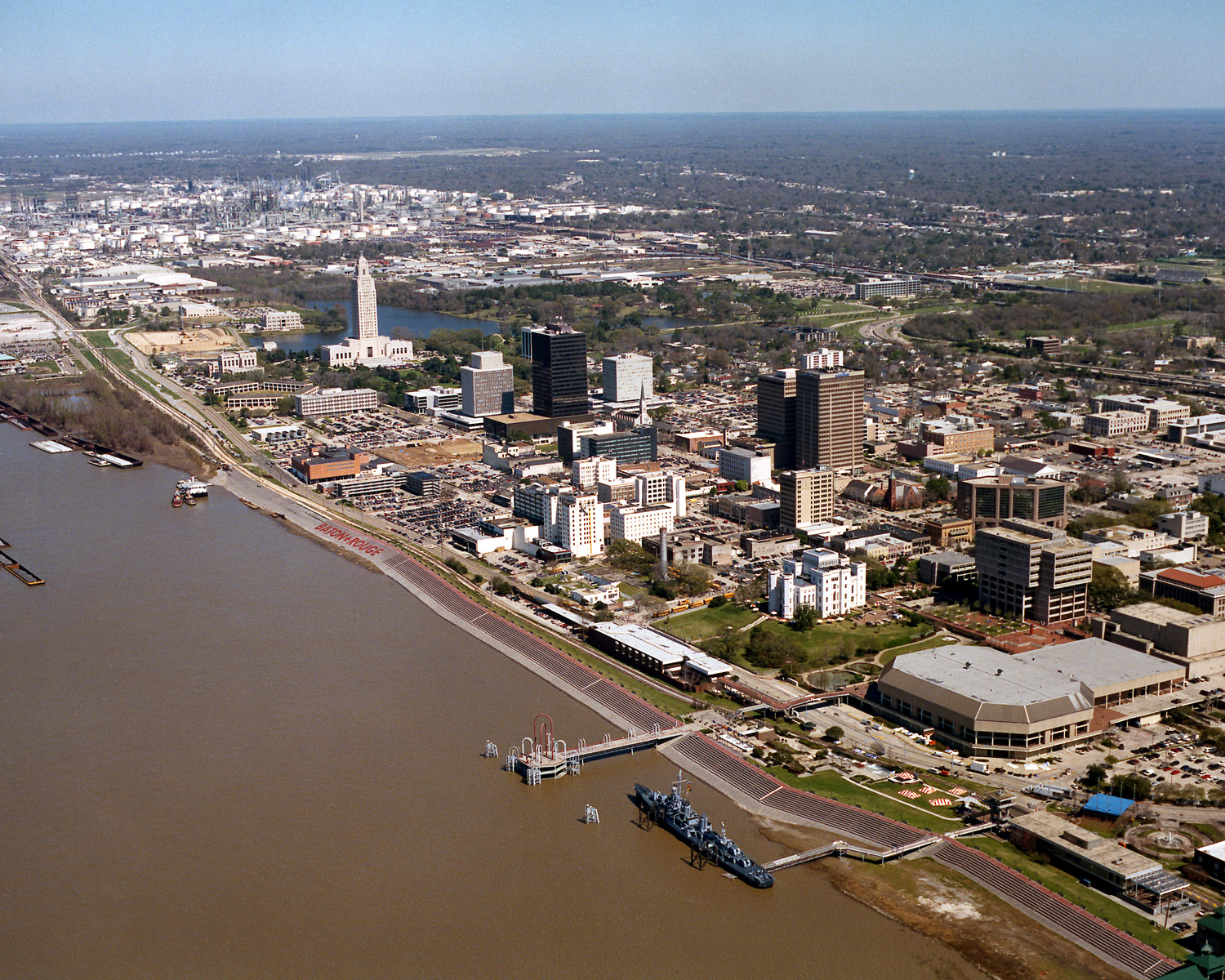 Aerial view of the riverfront area of Baton Rouge, Louisiana, USA. The city fronts on the Mississippi River in the center of Louisiana. The tall state capitol tower can be seen at center left. The historic destroyer USS Kidd is moored in the river at the bottom of the picture. View is to the north-northeast.